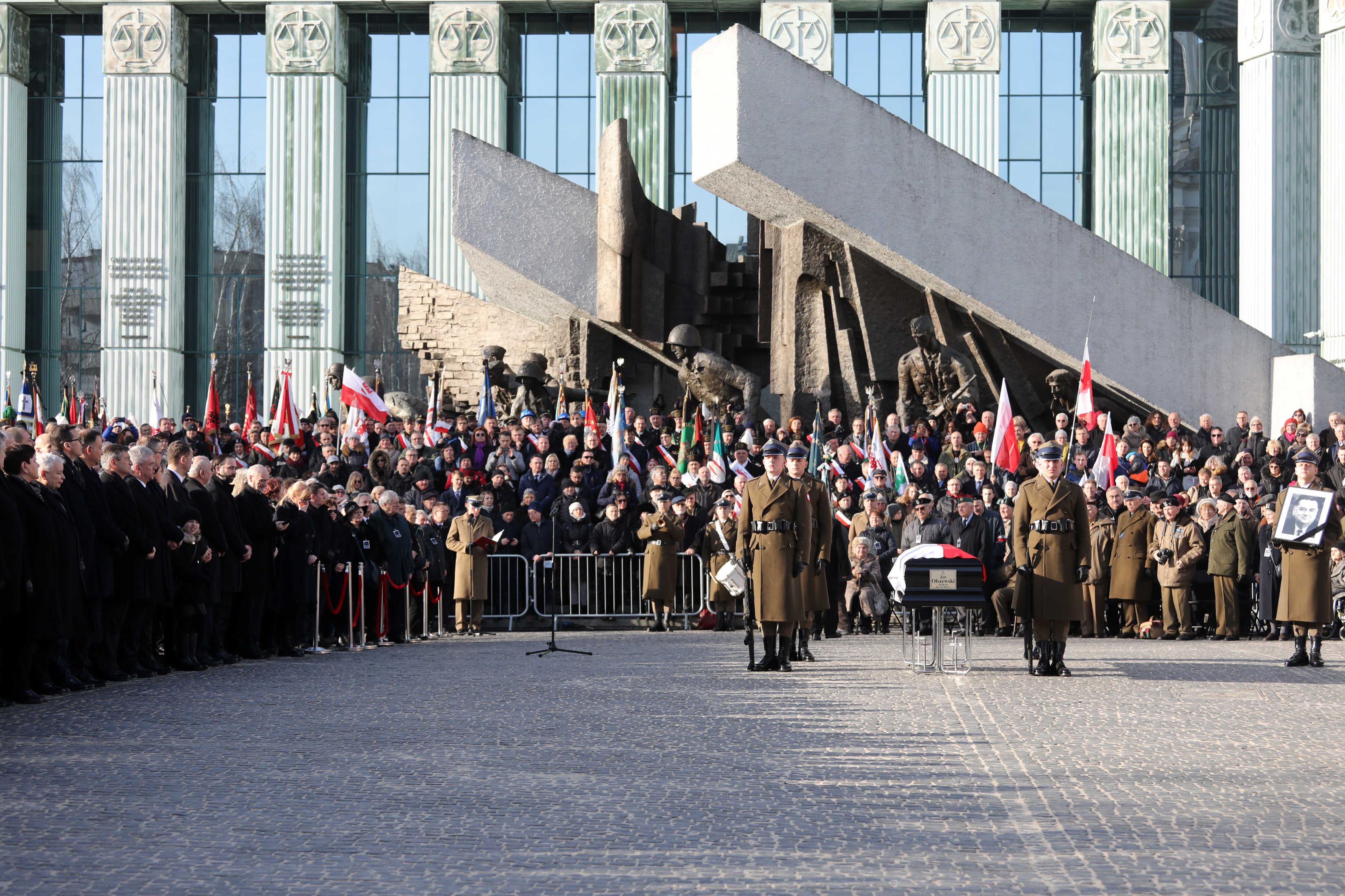 Jan Olszewski's coffin, scout of the Gray Ranks, in front of the Warsaw Uprising Monument 1944. Farewell to comrades and veterans of the struggle for freedom and independence. Funeral ceremonies of the former Prime Minister Jan Olszewski with participation of m.in. Speaker of the Sejm and parliamentarians.